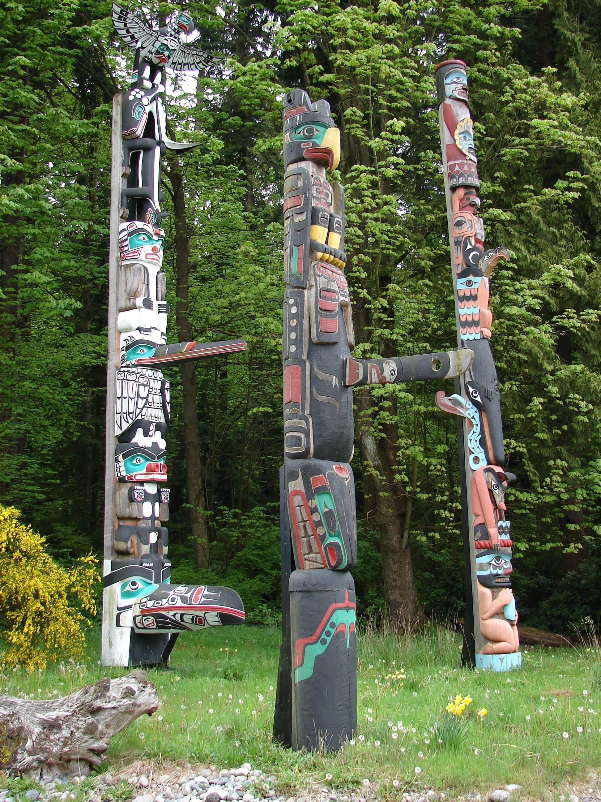 Totem poles in Stanley Park Vancouver/Canada